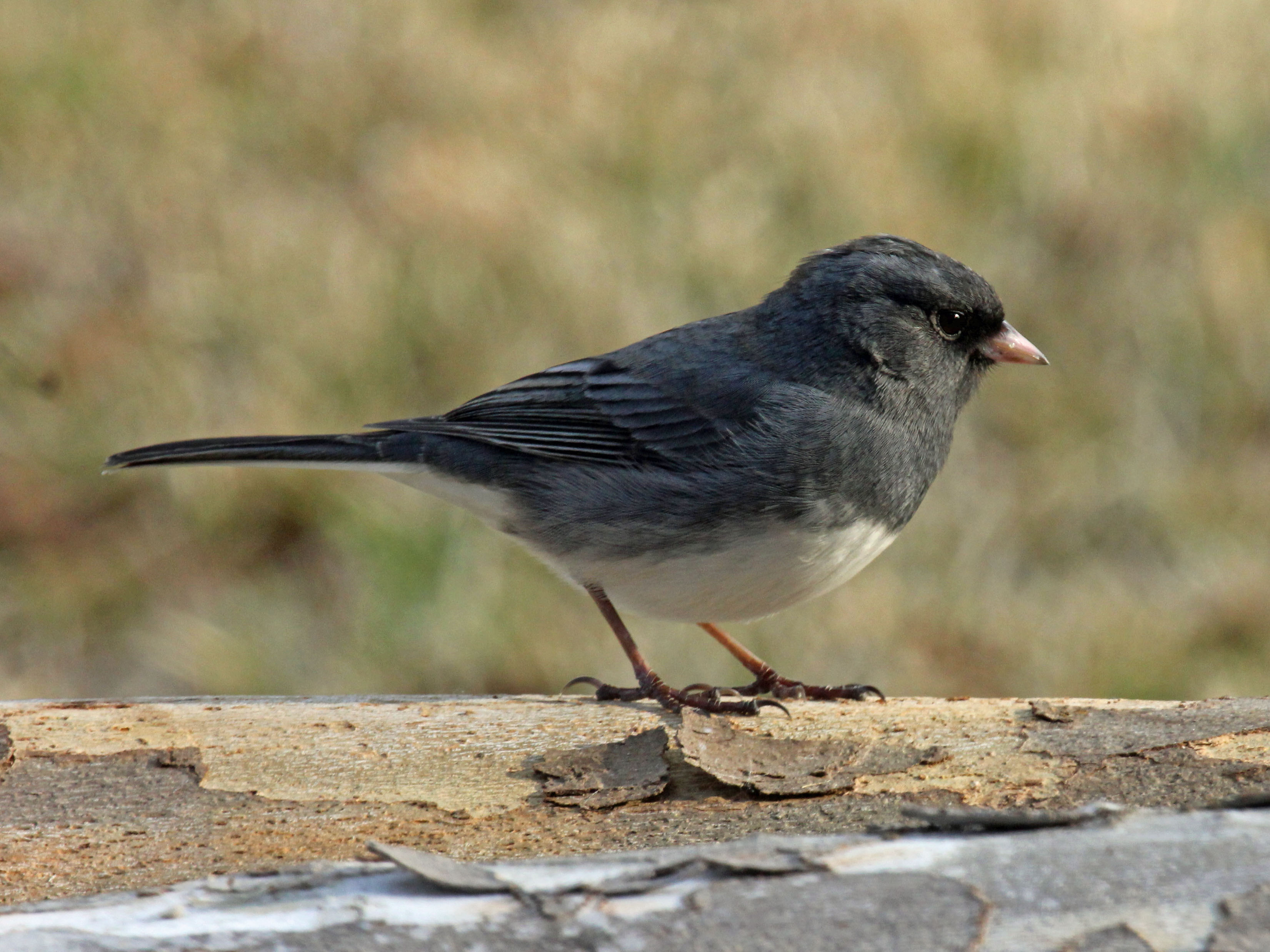 Dark-eyed Slate-colored Junco (Junco hyemalis) - Ash, North Carolina